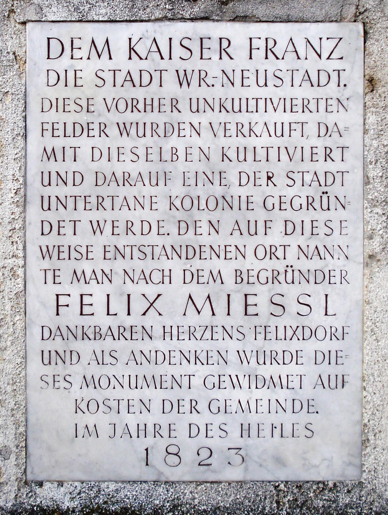 To Emperor Franz The city of Wiener Neustadt. This previously uncultivated fields were sold to be cultivated and to set up a colony tributary to the city. The place that arose in this way was called after its founder FELIX MIESSL Gratefully Felixdorf and to commemorate this monument was dedicated at the expense of the community. In the year of grace 1823